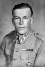 Knight of the Mannerheim Cross #154